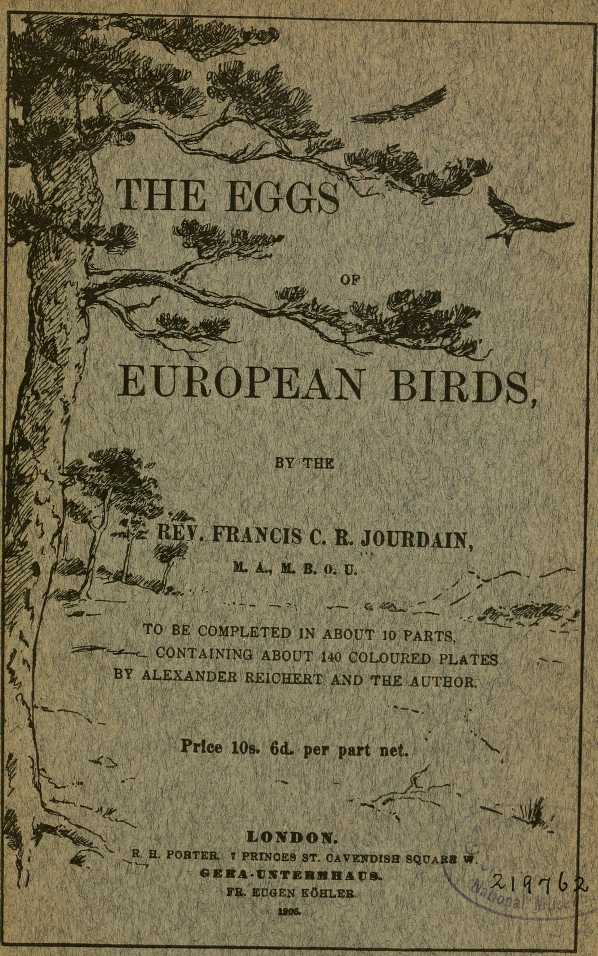 Title: The eggs of European birds Year: 1906 (1900s) Authors: Jourdain, F. C. R. (Francis Charles Robert), 1865-1940 Subjects: Birds Publisher: London : R.H. Porter Text Appearing Before Image: 1-4 Great Tit, Parus major L. 5-8 Blue Tit, P. coerixleus L. 9-12 Coal Tit, P. ater L. 13-16 Azure Tit, P. cyanus Pall. 17-20 Northern WilIo^y Tit, P. atri- capillus borealis Selys. 21-24 Tree Creeper, Certhia familiaris L. 25 Wall Creeper, Tichodroma muraria (L.). 26-30 Long tailed Tit, Aegithalos caudatus (L.). ...^ SUBSCBIPTIONS FOB tttE COMPLETE WORK OXLT RECEITED. PART II. Text Appearing After Image: tinentalEurope. 81 35. Two-l)arre(l Crossbill, Loxia leucoptera Ibifaseiata (Brehm). Plate 34, fig. 18 (Archangel, 4. V. 92). Eggs: Baedeker, Tab. 20, fig. 10. Foreign Names: Bohemia: Krivka hilokridld. Denmark: HoidvingetKorsnaeb. Finland: Kirjasiipi kdpylintu. Germany: Zweihindiger Kreiiz-schnabel. Helgoland: Witt-jilkhed Borrfink. Hungary: Szalagos keresztczorii.Italy: Crociere fasciato. Norway: Hoidvinget Korsnaeb. Poland: Krzyzodziobdivupregoivy. Sweden: Bdndel or Norsk Korsnab, Pipkrums. Loxia bifasciata (C. L. Brehm). Newton, ed. Yarrell, II, p. 211;Dresser, Birds of Europe, IV, p. 141; id. Man. Pal. Birds, p. 343; Saunders,Man., p. 203. L. leucoptera bifasciata (Brehm). Hartert, Vog. Pal. Fauna,p. 123. Breeding Range: Northern European Russia. (Also Siberia; butperhaps the eastern birds may form a separate race, L. leucoptera elegansHorn. See Vog. Pal Fauna, p. 124.) Although well known as an erratic visitor to Scandinavia and Finland Conin varying numbers, this bird has not b